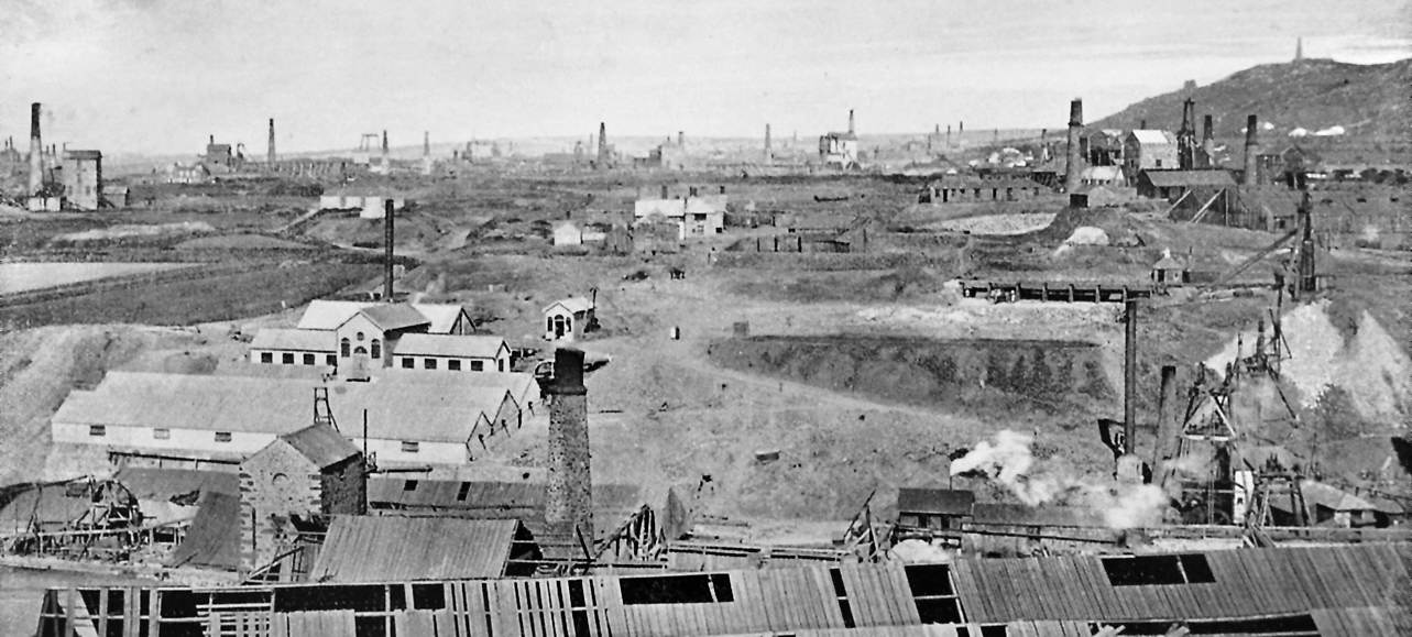 The heart of the Cornish tin-mining district, looking from Dolcoath Mine towards Redruth (on an unusually smoke-free day)